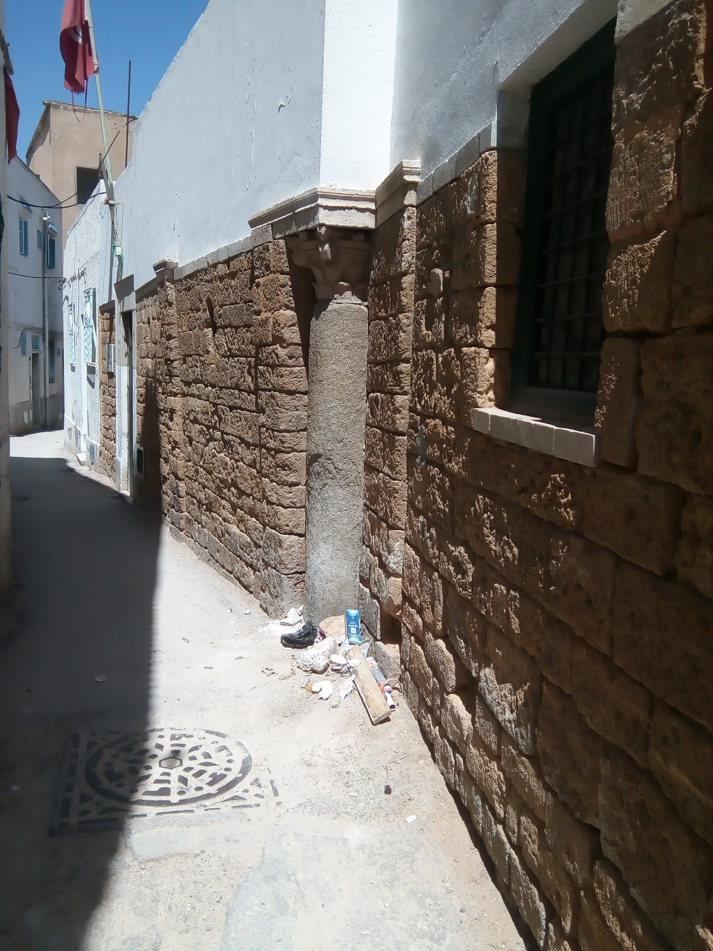 Medersa El Mountaciriya in Tunis, Tunisia